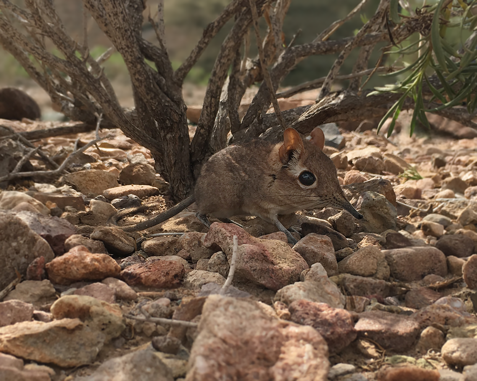 Somali Sengi (Galegeeska revoili, syn Elephantulus revoili) photograph at the Assamo locality in Djibouti